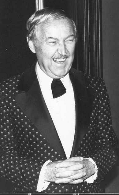 Photo of animator George Pal.